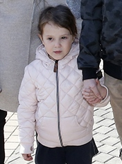 Princess Athena at the opening of the area Ninjago World in the amusement park Legoland Billund Resort in Denmark.